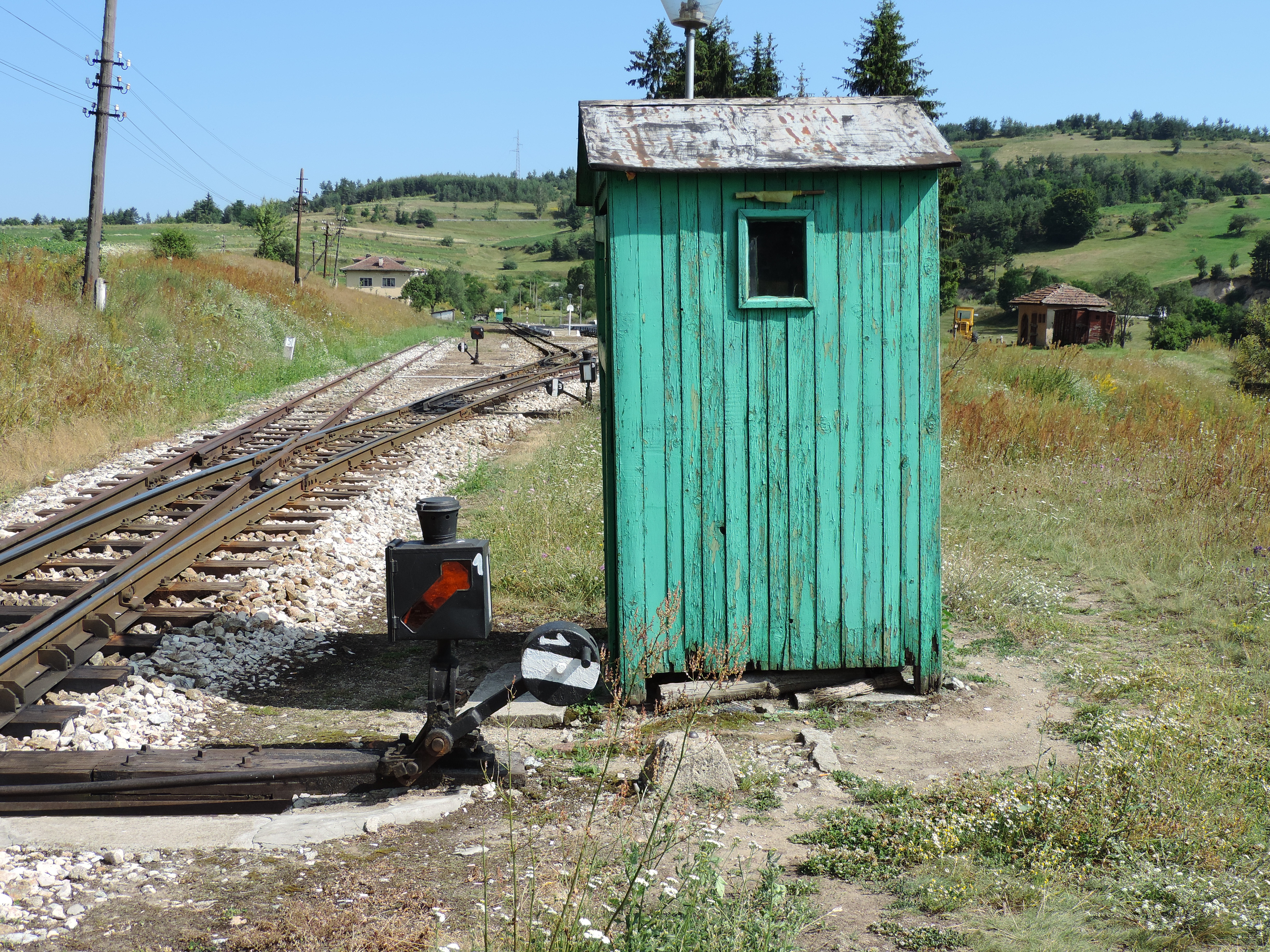 Avramovo Railway Station, Septemvri-Dobrinishte narrow gauge line, Bulgaria.